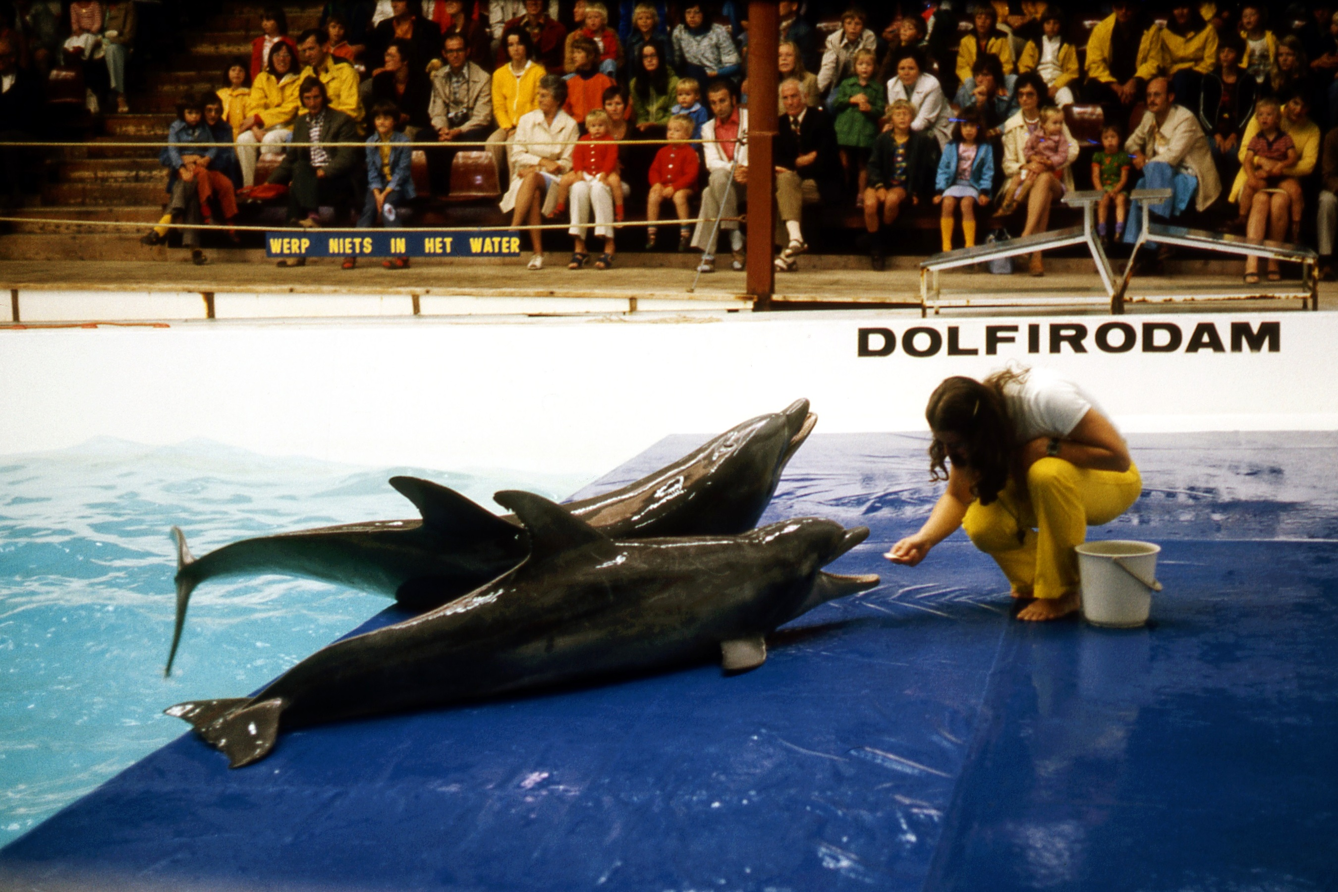 Part of a dolphin show in the 'Dolfirodam' dolphinarium at Scharendijke in The Netherlands, pictured in the summer of 1974.